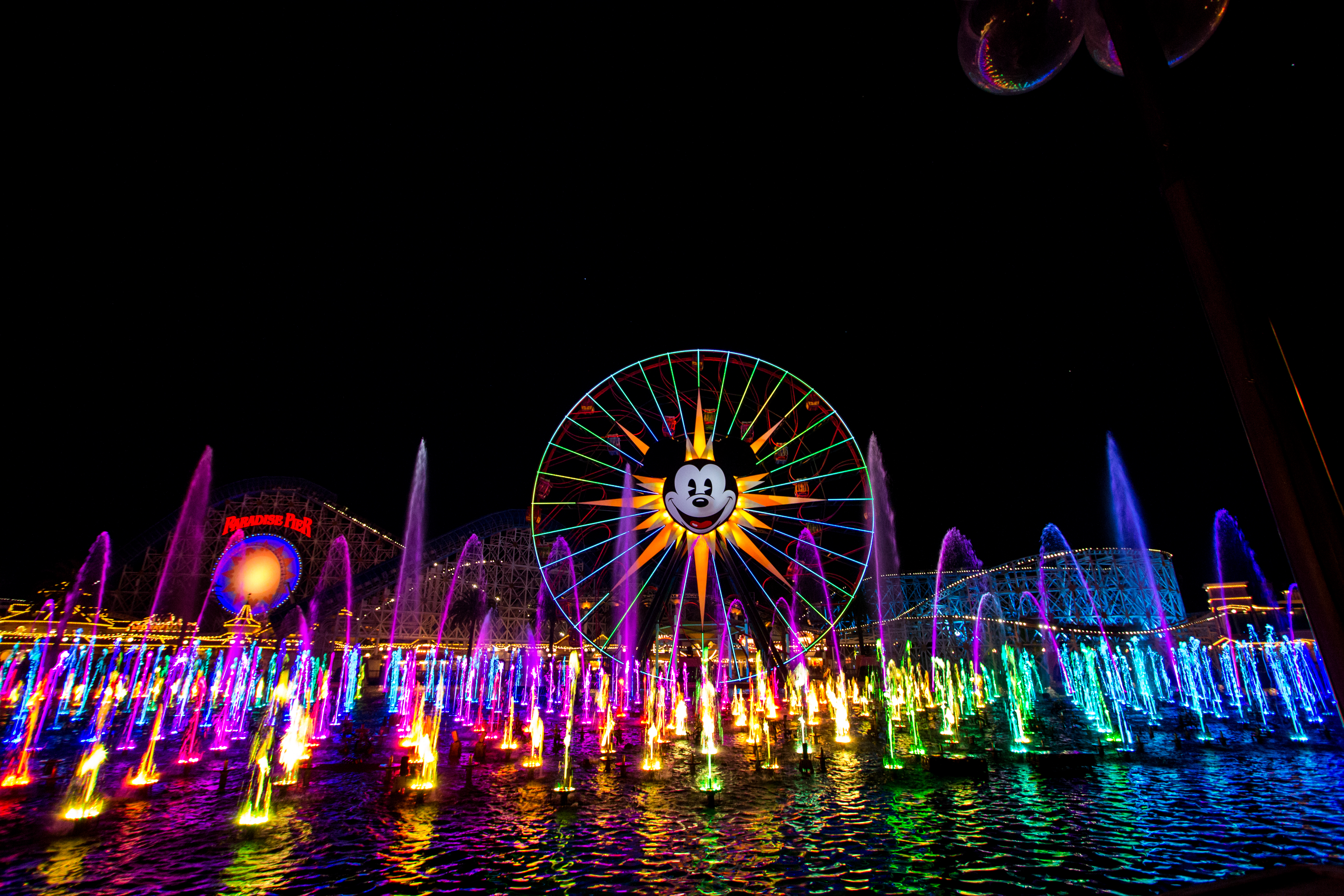 During the extra hours for Annual Passholders at Disney California Adventure on February 28, the World of Color fountains were left on for all to enjoy. Such a lovely view!